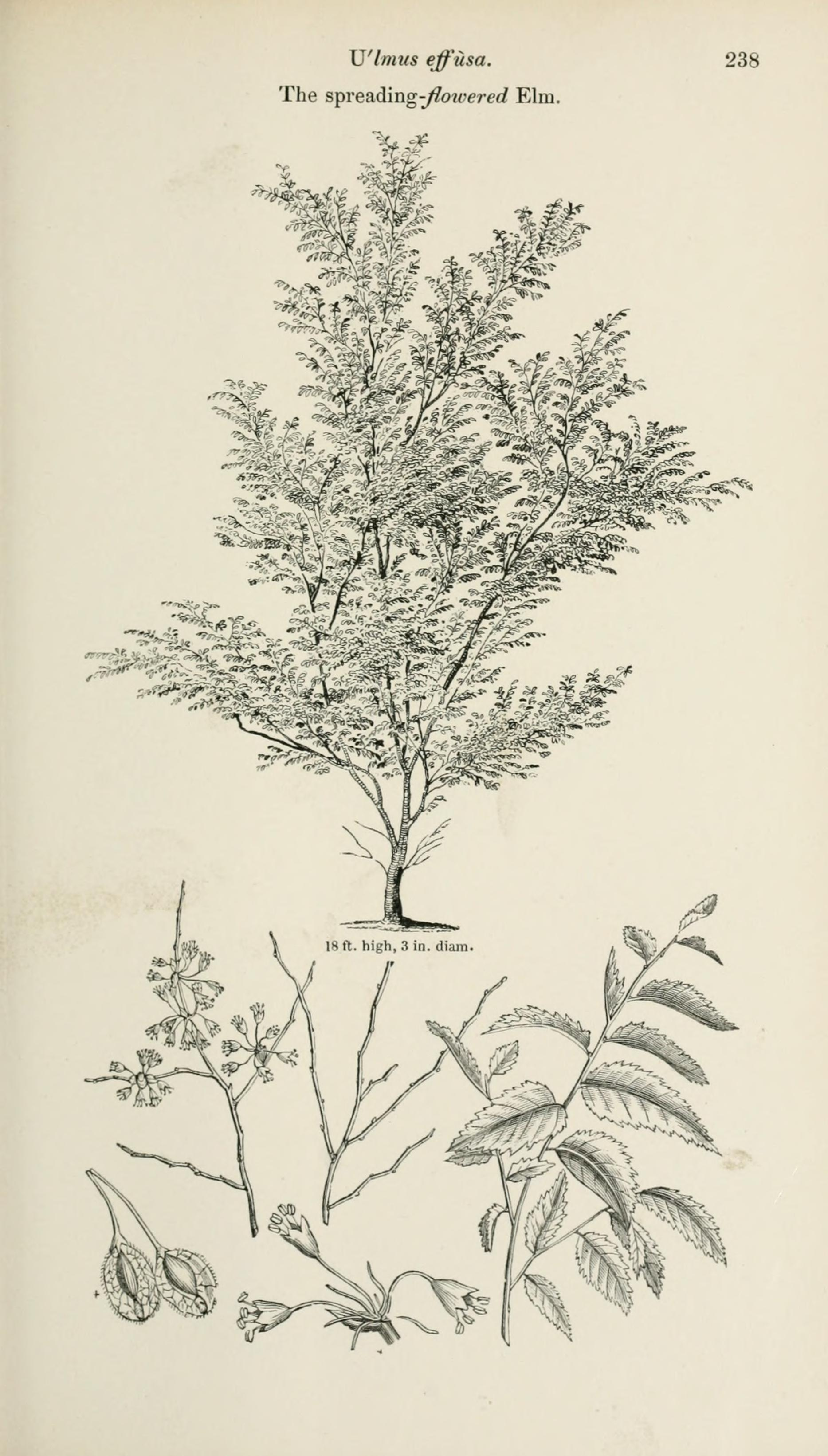 Ulmus effusa. The spreading-flowered Elm. p.238